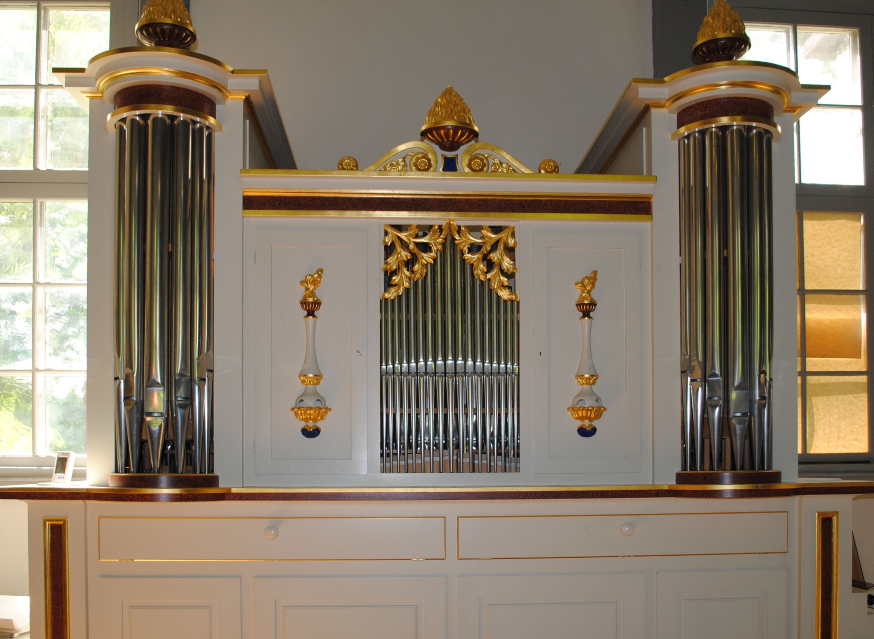 Fliseryds Church.The choir organ.